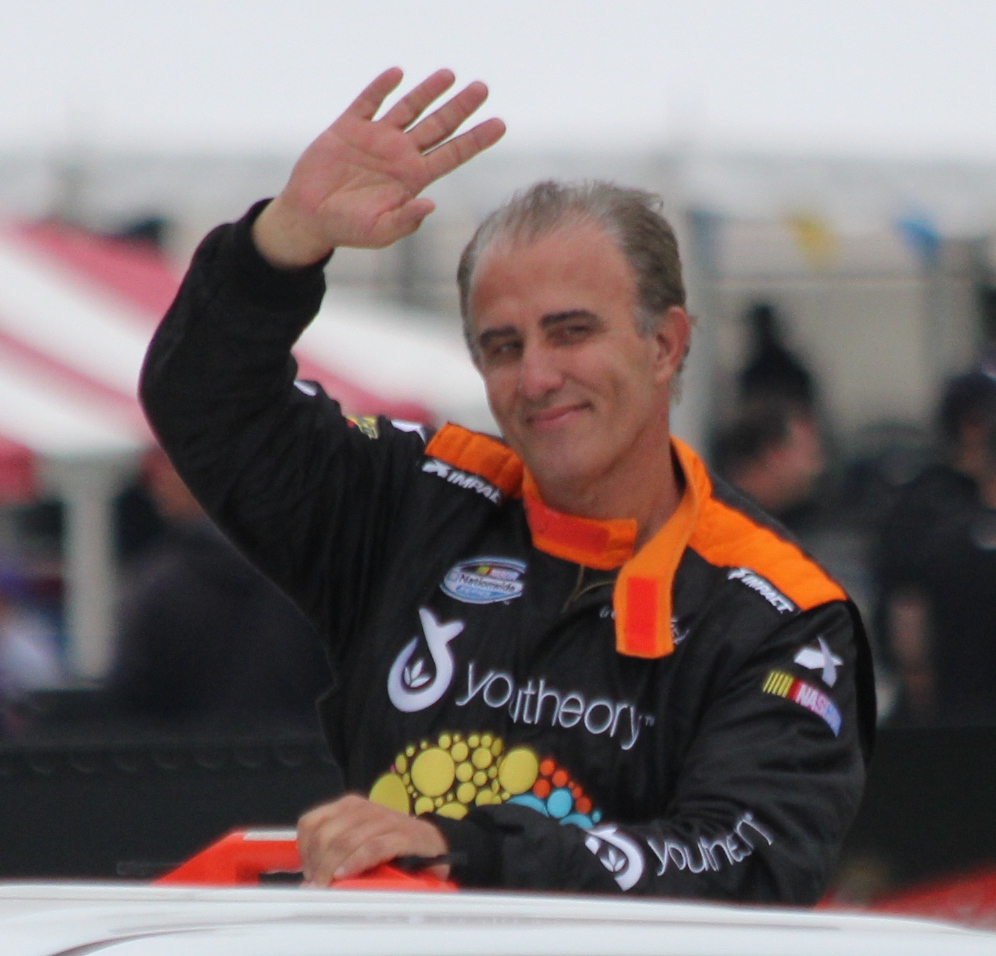 NASCAR Nationwide Series driver Derek Cope waves to the crowd at the 2014 Gardner Denver 200 event at Road America.